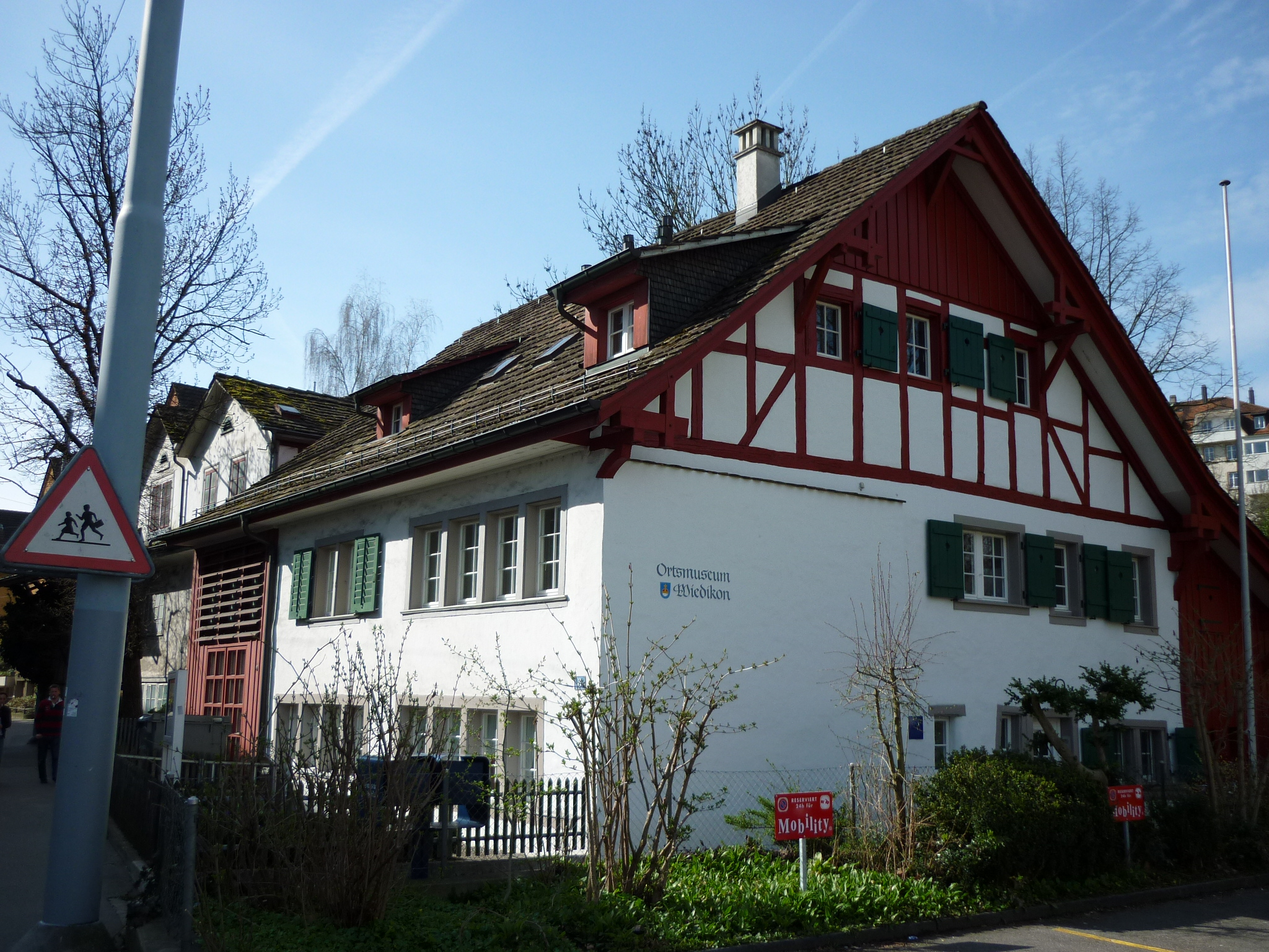 Zurich-Wiedikon, Switzerland